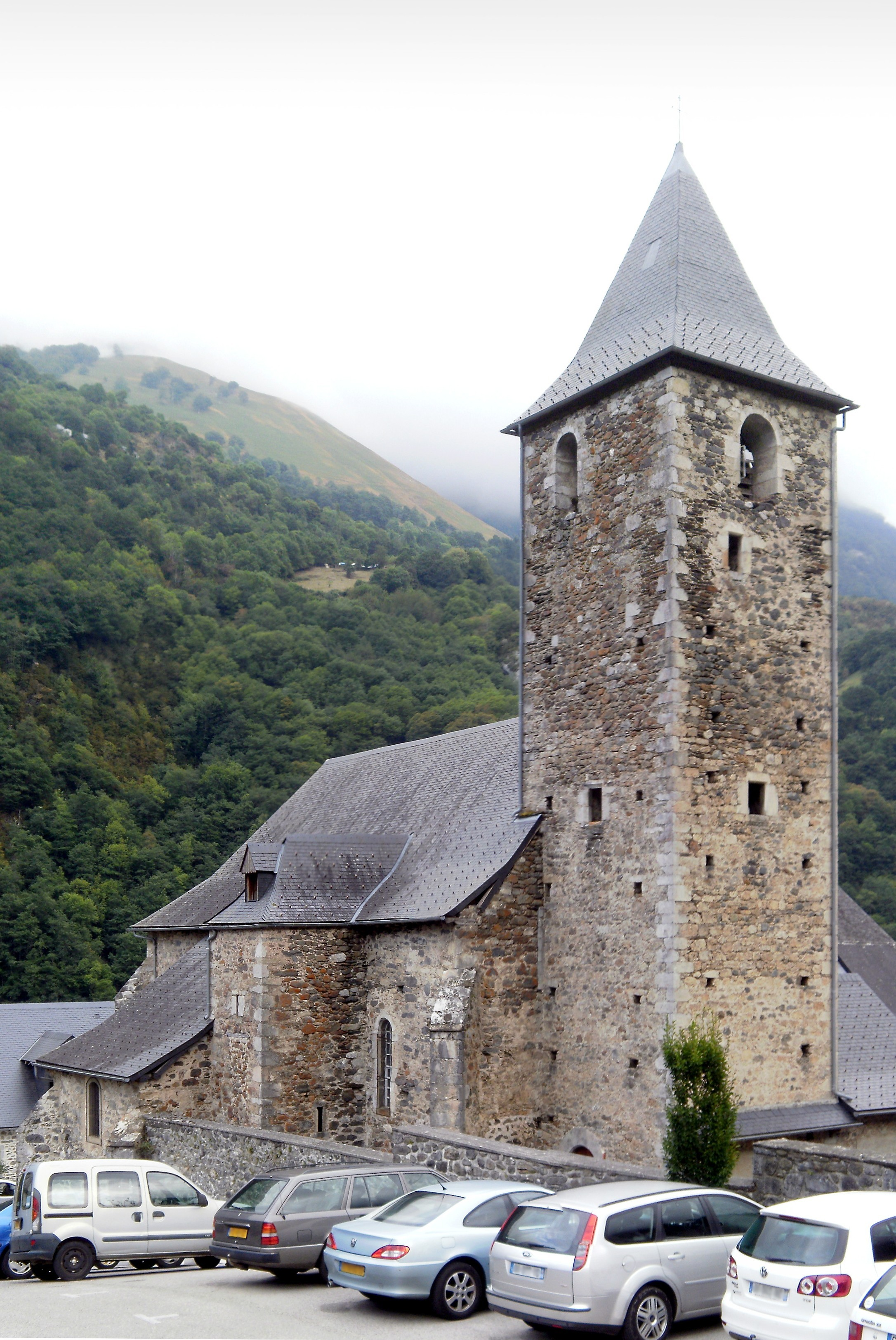 The church of the medieval village of Borce, Pyrénées-Atlantiques, France.